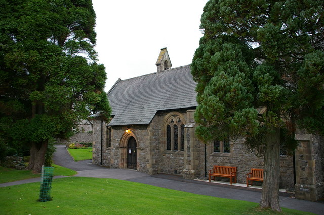 Parish church of St James, Arnside, Cumbria (formerly Westmorland), seen from the southeast